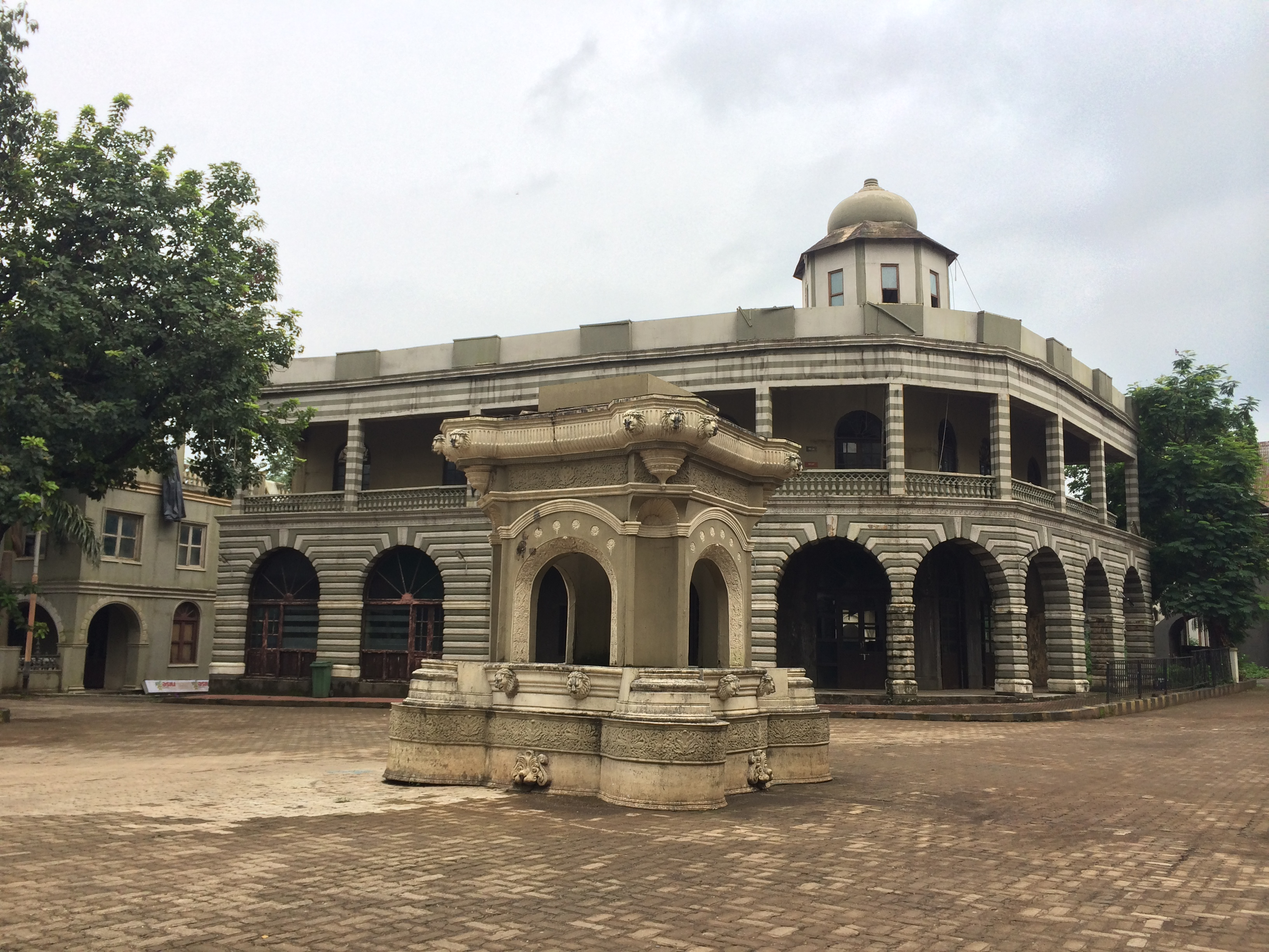 NDStudios